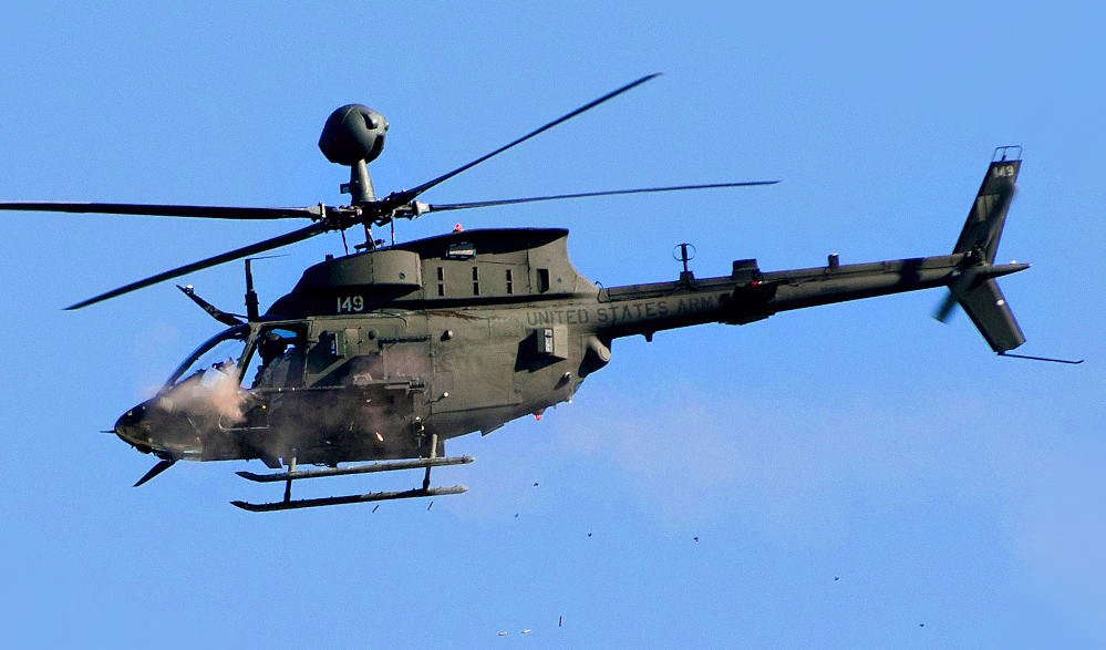 US Army OH-58D